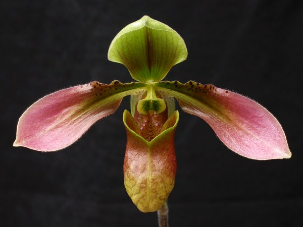 Paphiopedilum